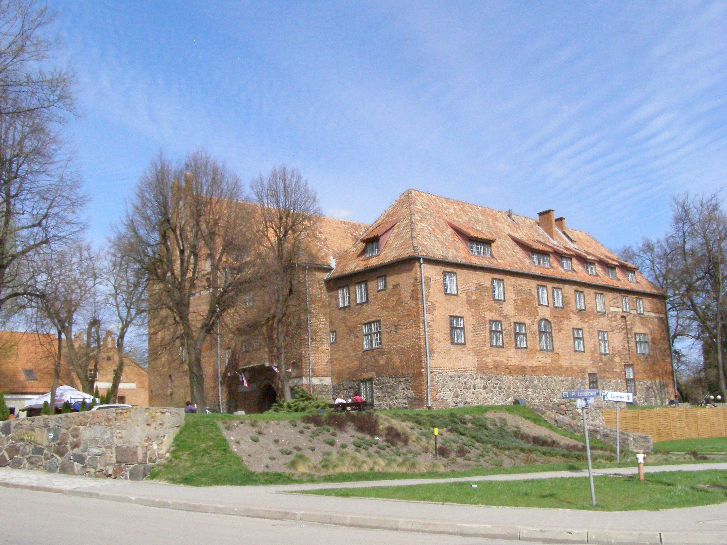 Kętrzyn - castle